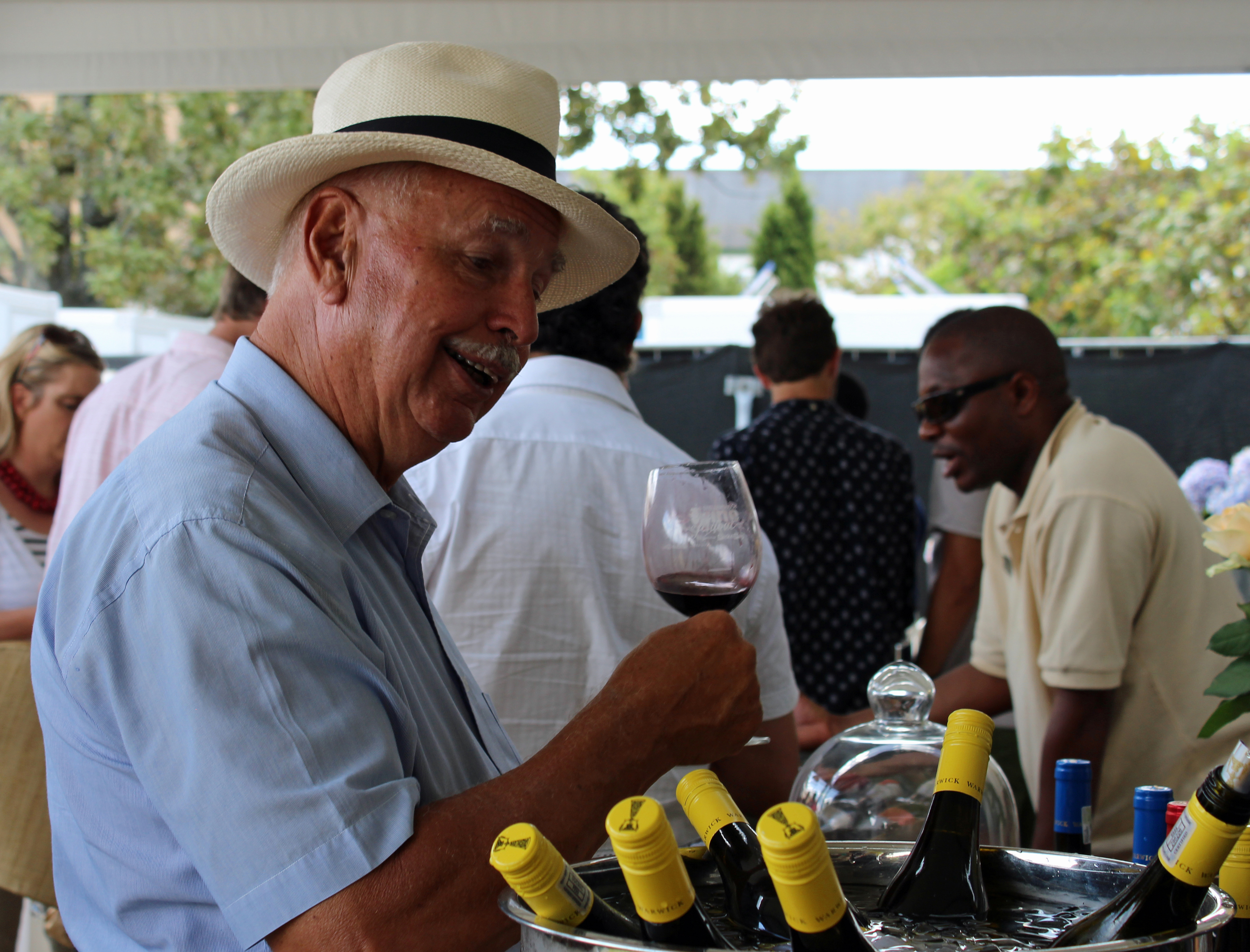 Warwick stall, Stellenbosch Wine Festival Wine Expo 2014 on the Braak